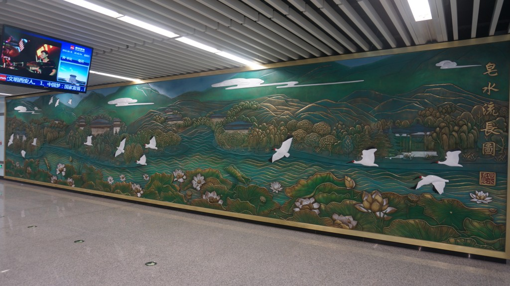 Zaohe Station Art